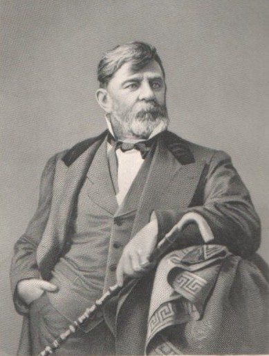 Official portrait of General Francis Barretto Spinola (1821–1891), the first Portuguese American to be elected to the United States House of Representatives.